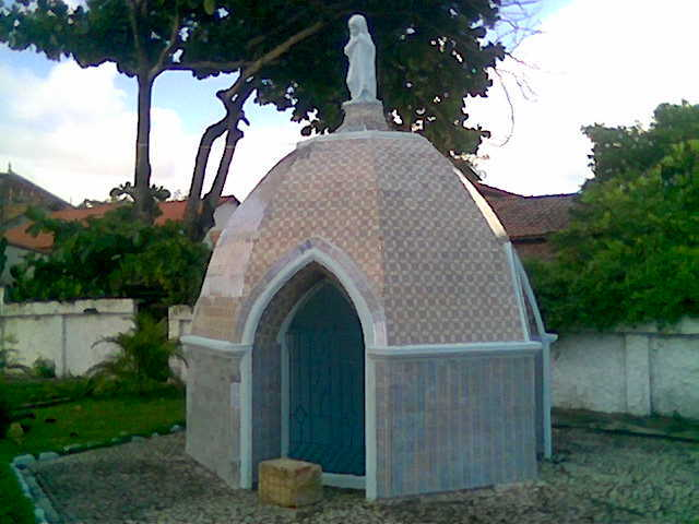 Cacimba do Concelho